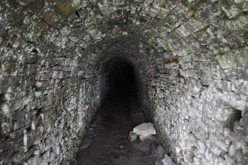 Nenthead Mines, Data from Geograph: Description: A small horse adit driven into the hill, it heads in a while before hitting the vein and the shale bedrock is evident. One would get very wet, I didn't venture down but have seen images. ICBM: 54.785736655108, -2.3420575296992 Location: (about 0 km from) near to Nenthead, Cumbria, Great Britain.